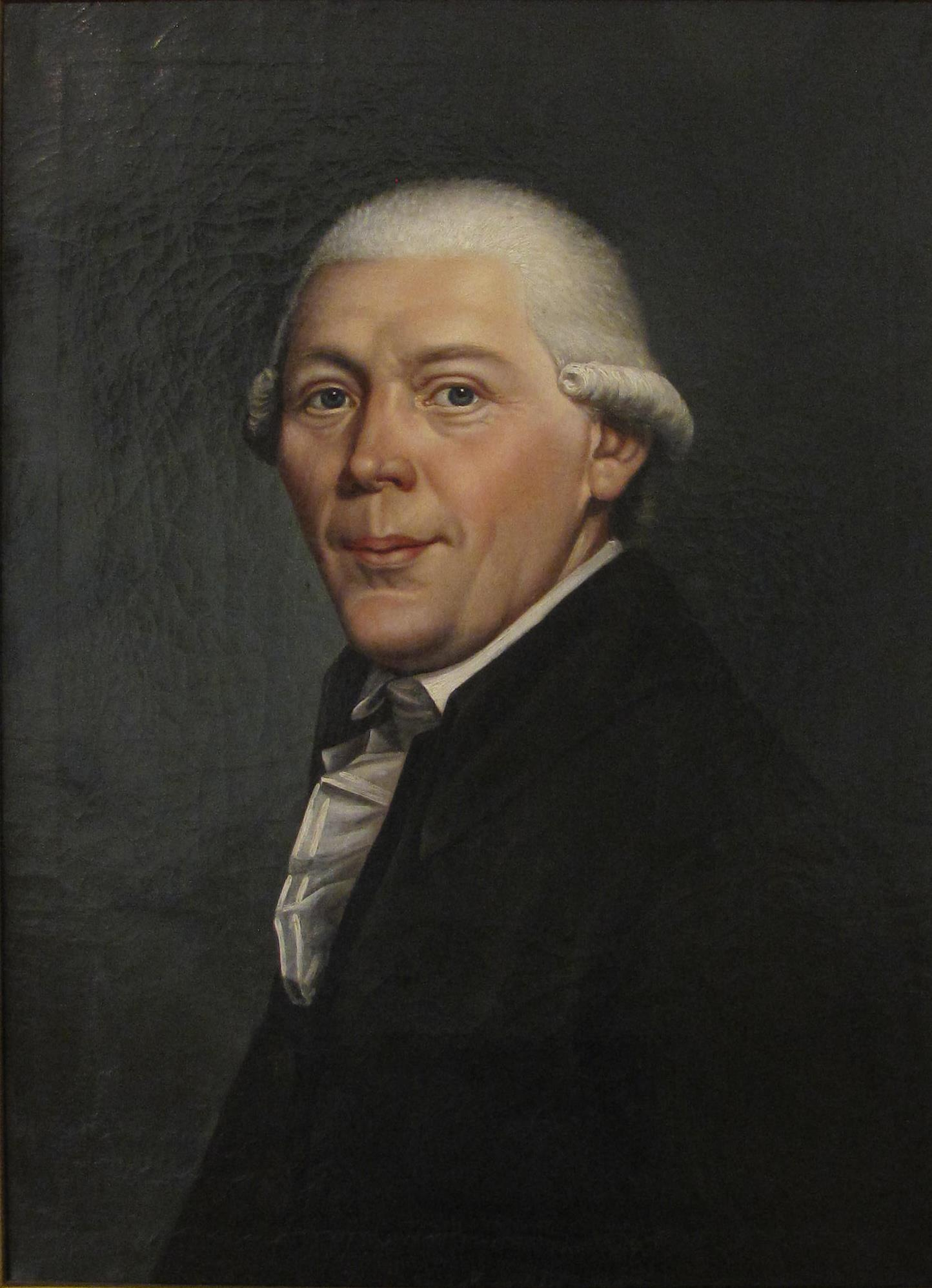 Rudolph Kaplunger